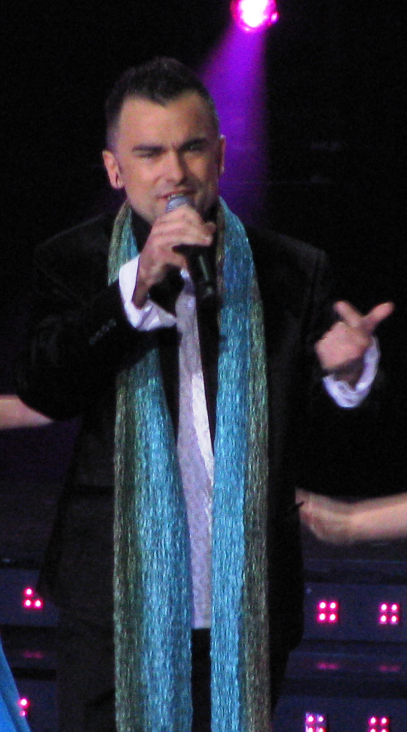 Sopot Trendy Concert